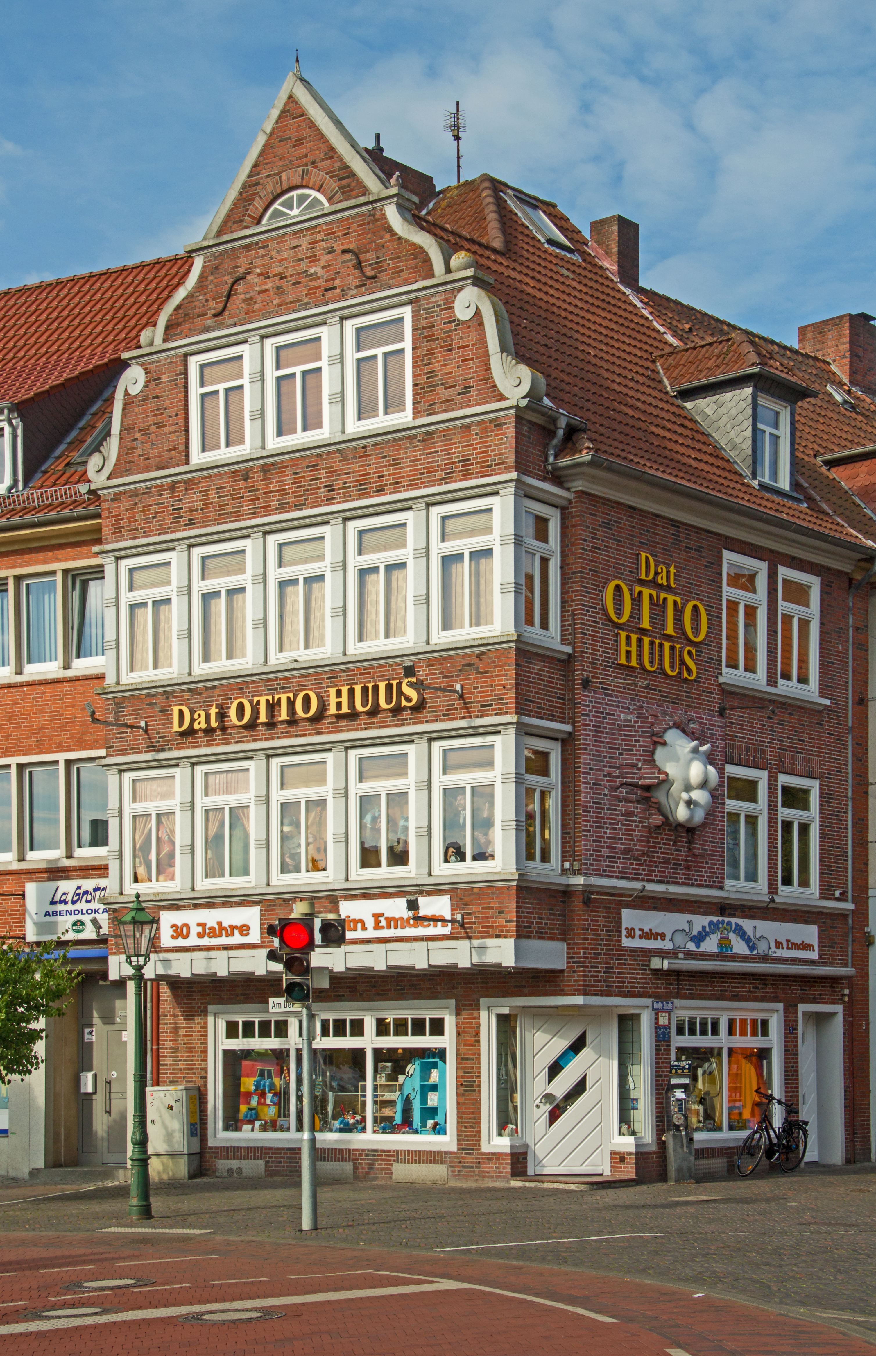 Museum "Dat Otto Huus" of the comedian Otto Waalkes - Emden, Lower Saxony, Germany